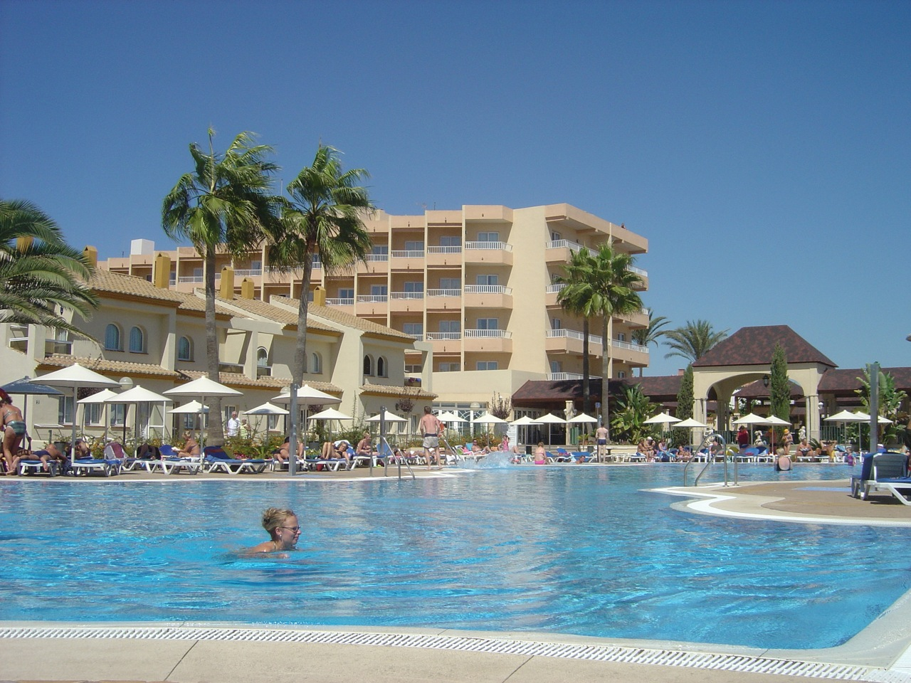 Flattr this!